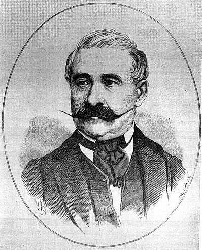 Szőnyi Pál (Debrecen, 1808. április 22. – Budapest, 1878. június 17.) pedagógus, tanügyi író, ásványgyűjtő, Tisza Lajos (1798–1856) császári és királyi kamarás, Bihar vármegye alispánja, majd főispáni helytartója gyermekeinek nevelője; királyi tanácsos, az MTA levelező tagja, 1851-től 1858-ig a Királyi Magya